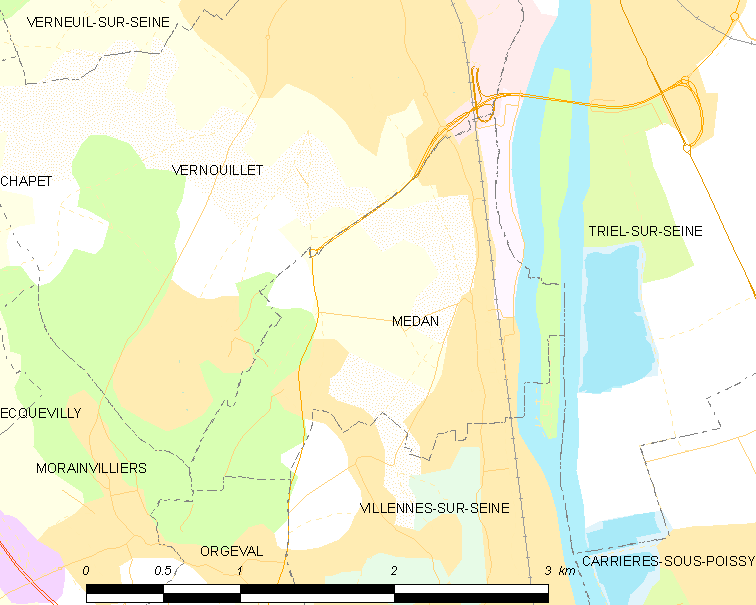 Map of French municipality Médan